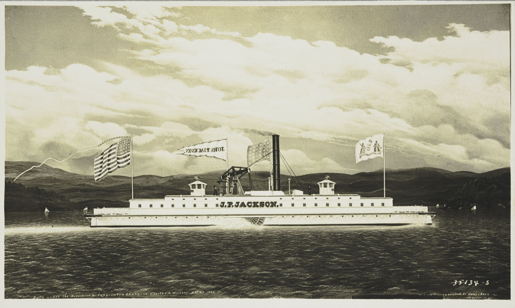 James Bard. Steamer "J.P. Jackson". Oil on canvas, 32 x 54 in. The Frick Collection / Frick Art Reference Library Photoarchive.